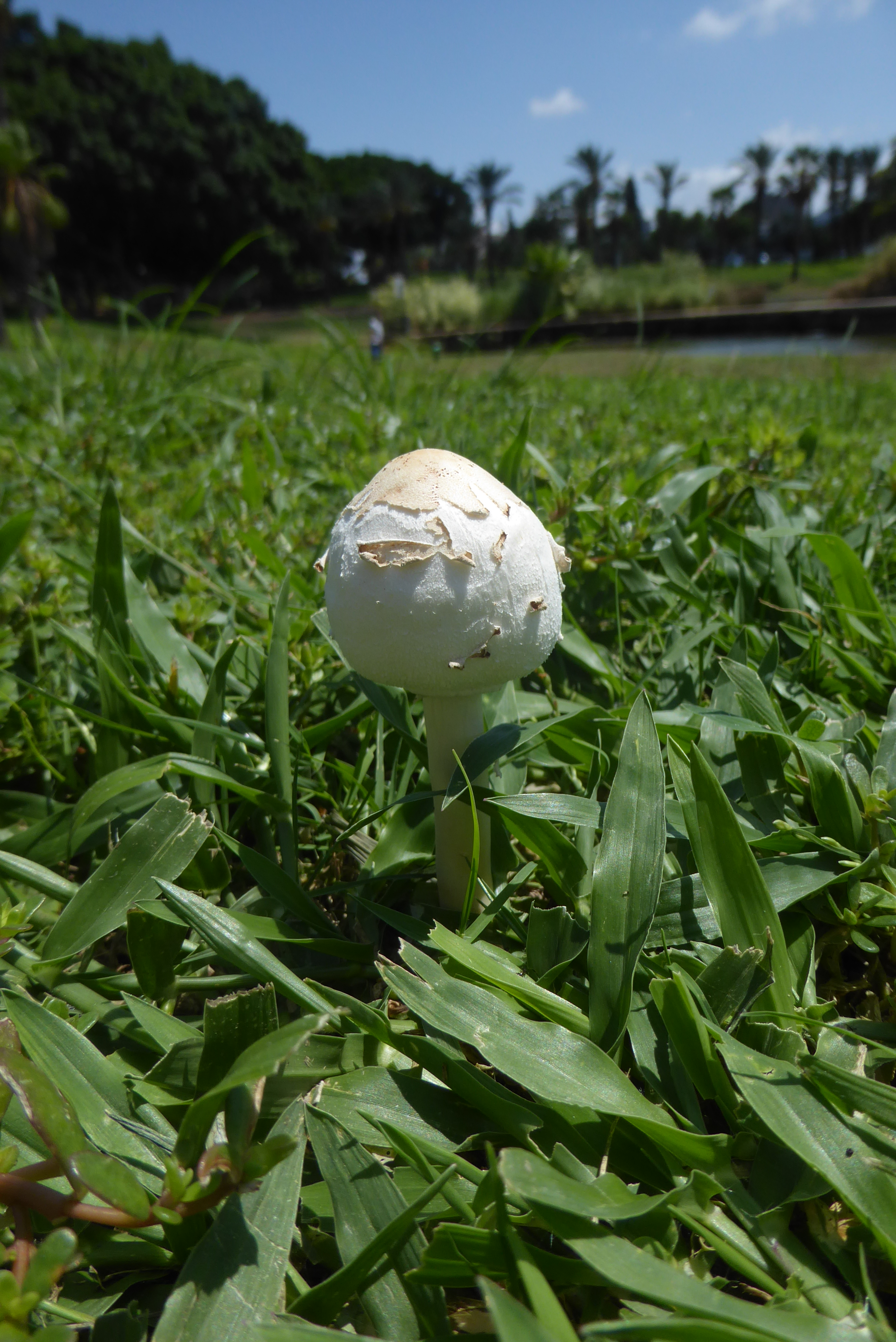 Edith Wolfson Park